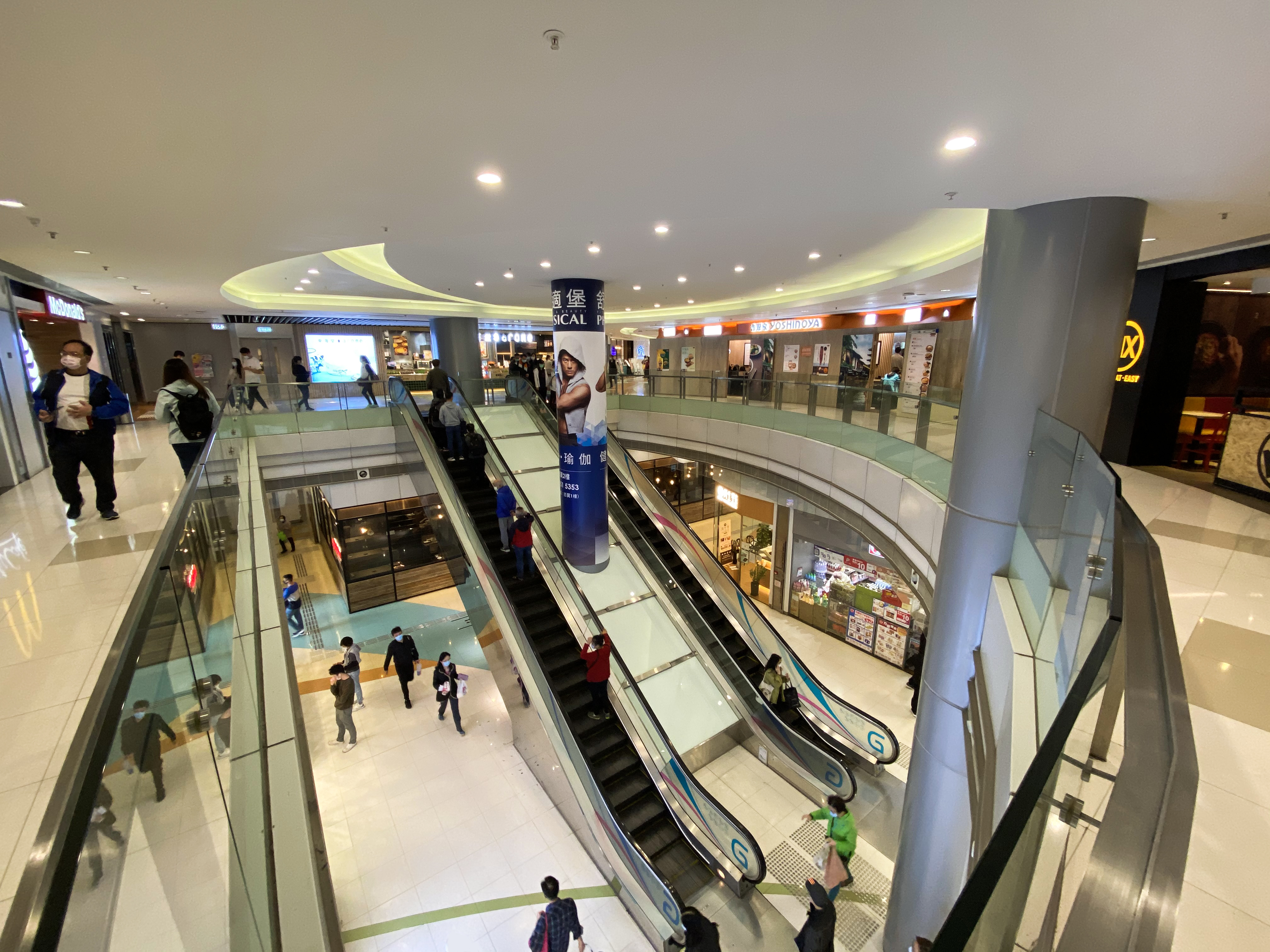 TKO Gateway West Atrium